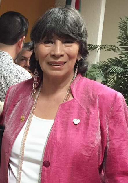 Actriz